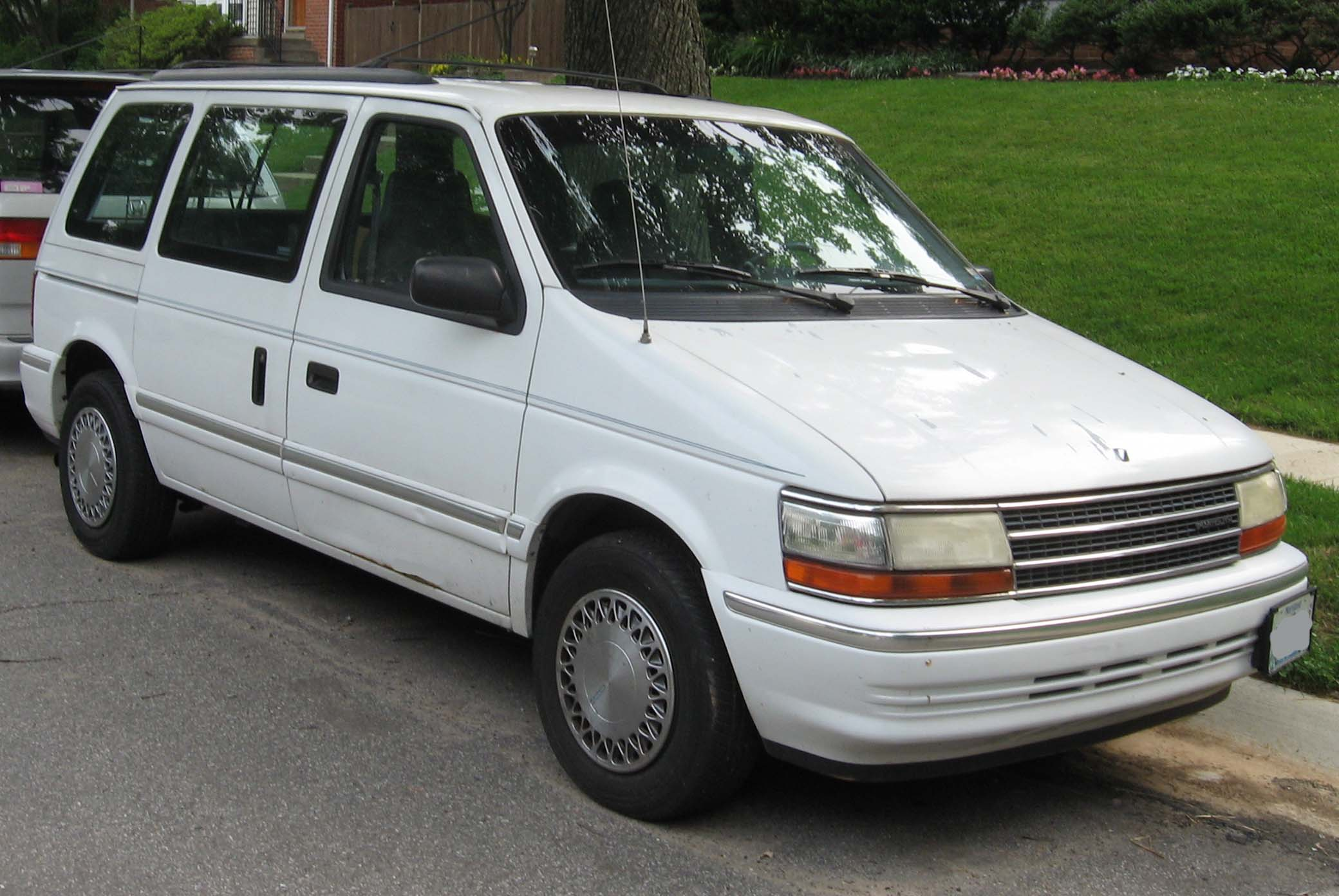 1991-1995 Plymouth Voyager photographed in USA.